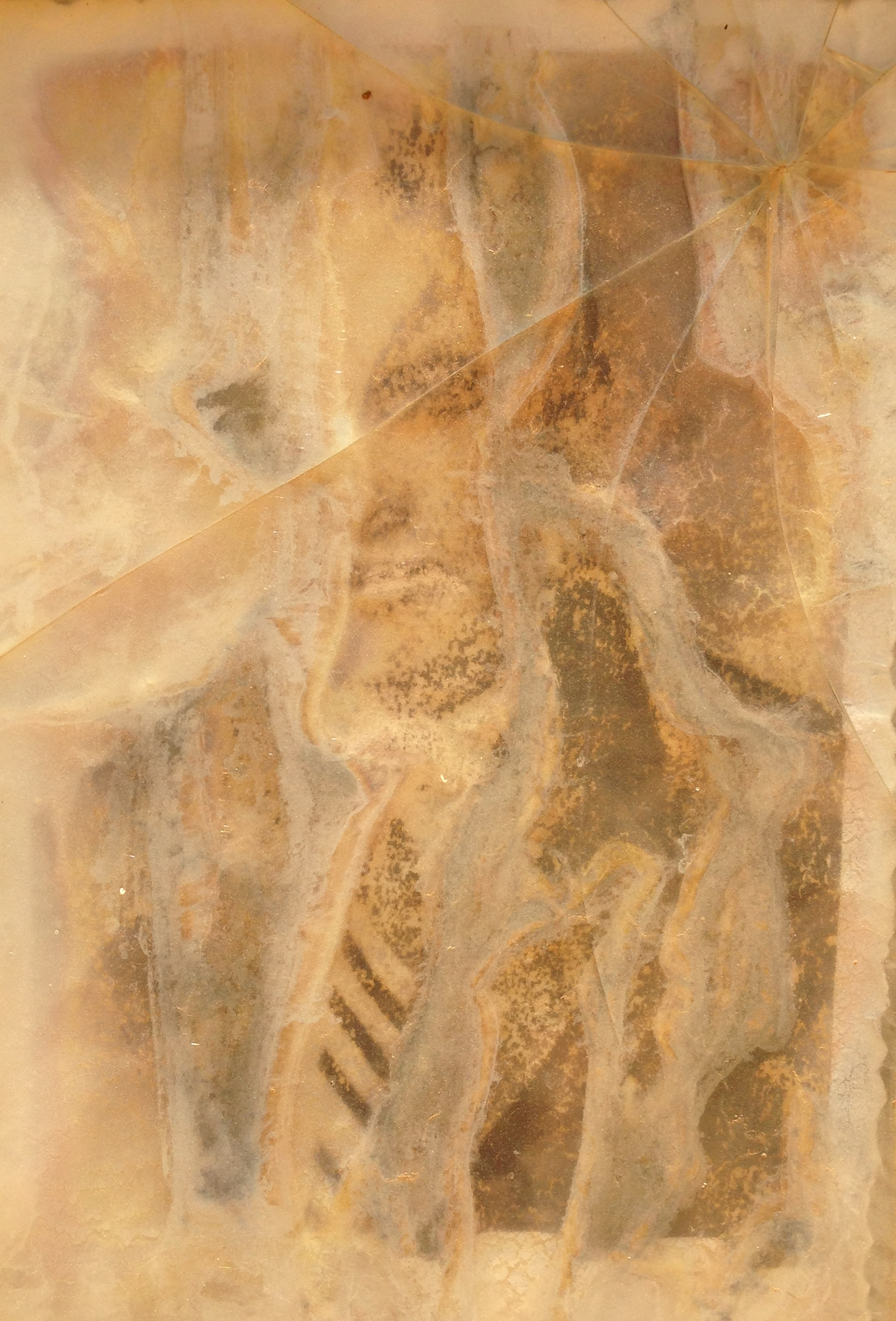 Grave of Georgios Koumnas, who died on February 2nd, 1967, in the Greek section of the Christian Cemetery in Khartoum, Sudan